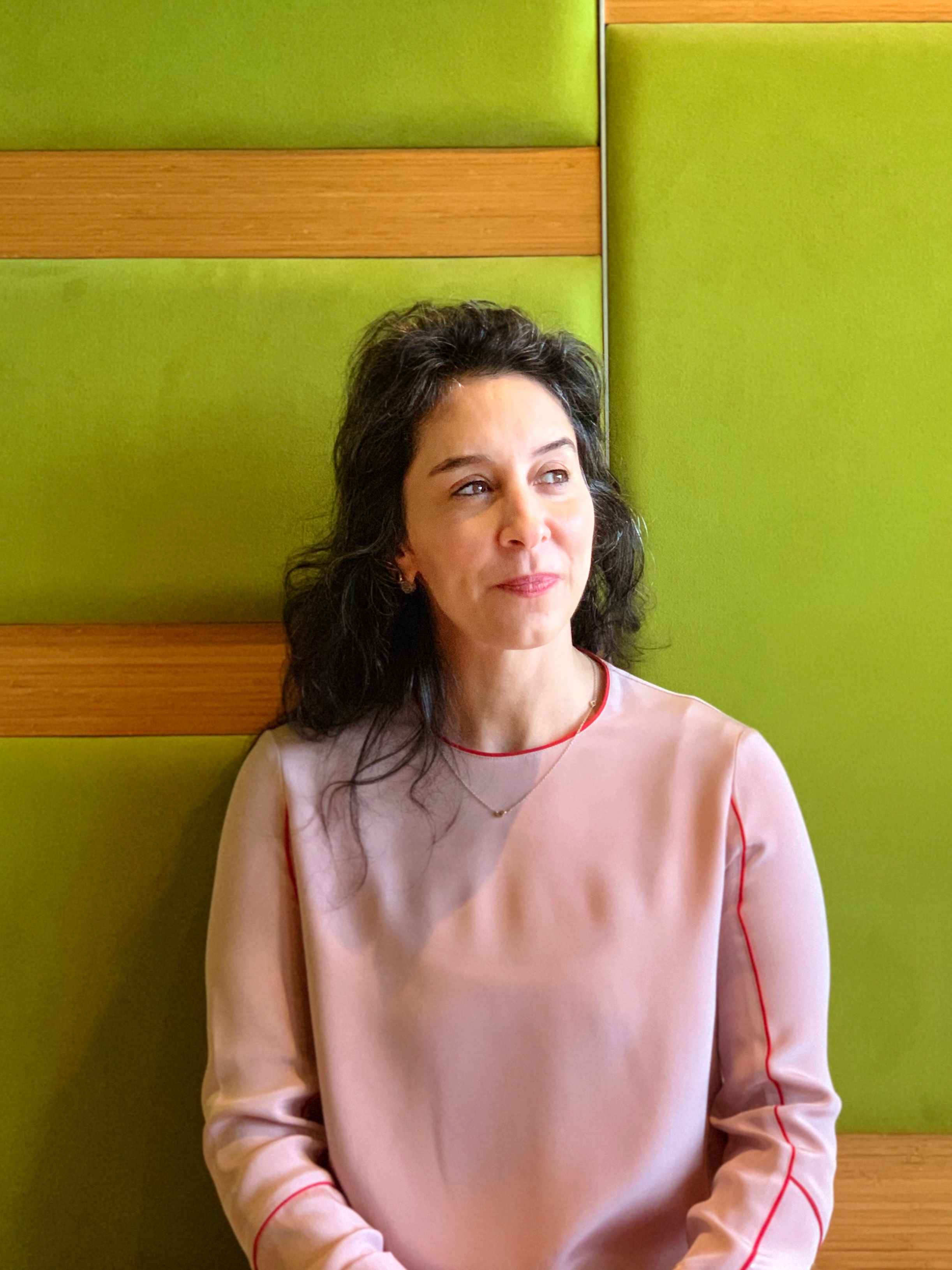 A portrait of Mansoor